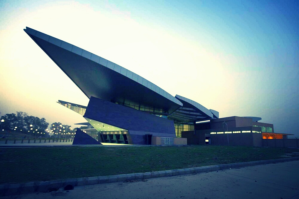 Terminal-2, CCS International Airport